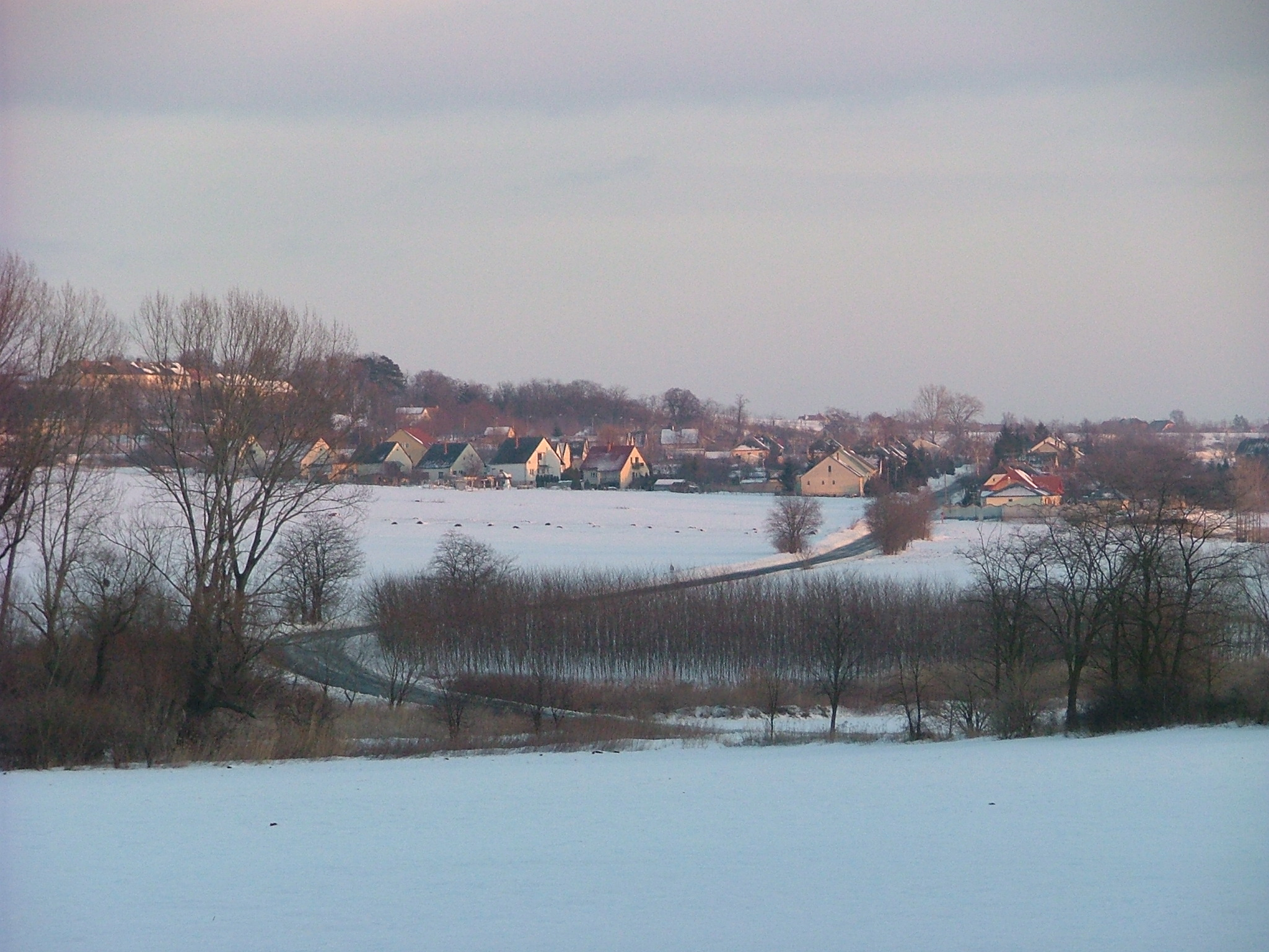 Tarjánpuszta